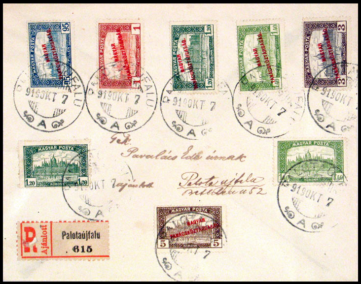 Stamps of Hungarian Soviet Republic on post envelope, 1919